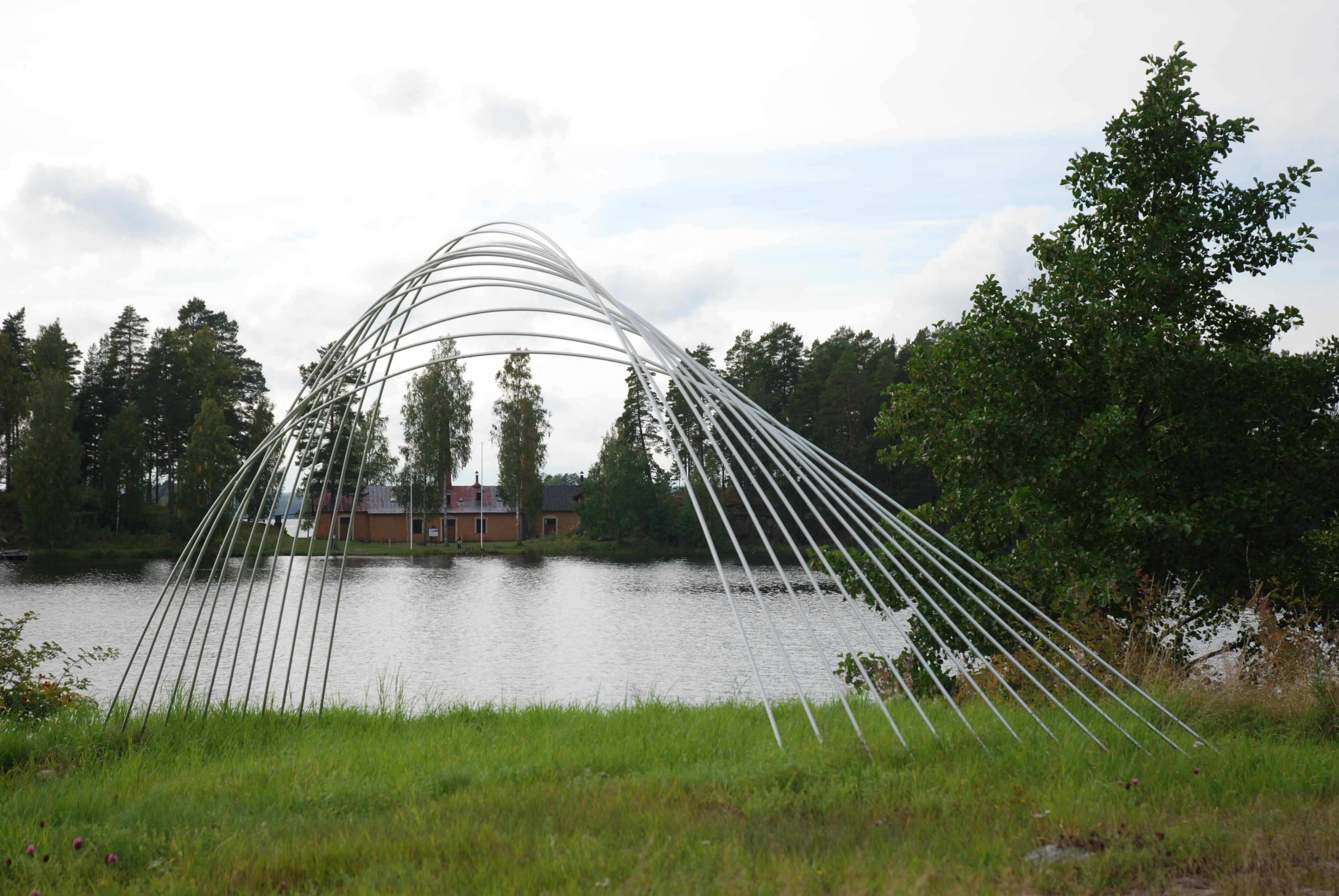 Uta Jacobs´ Himmelsbåge (Celestrial arch) — at the Engelsbergs skulpturpark in Ängelsberg, Sweden. The island Oljeön with the industrial museum Oljeöns oljeraffinaderi (a 19th century oil refinery) is seen under the arch.